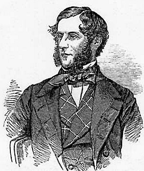 Depicted person: John Sadleir – British politician